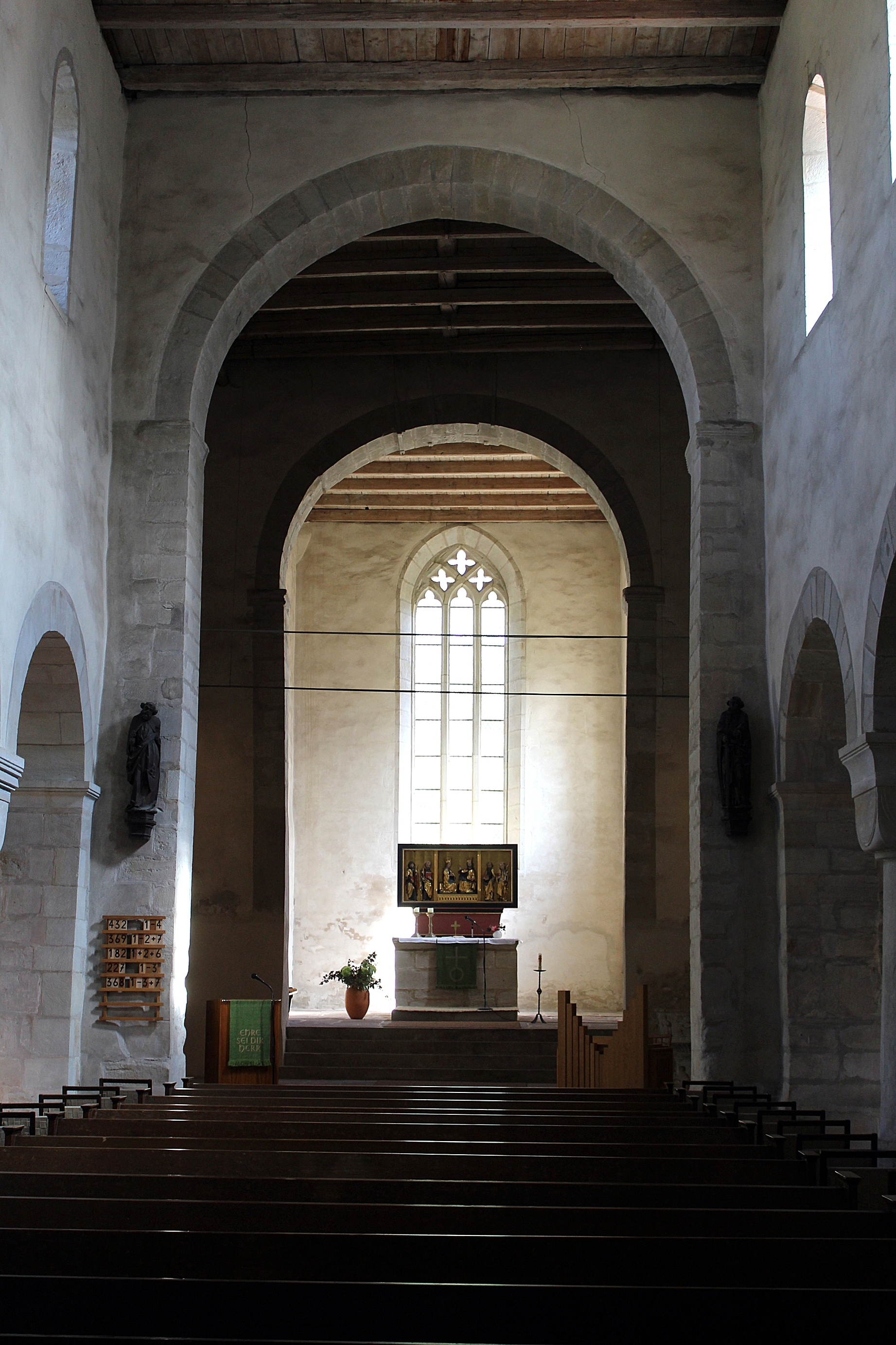 Klostermansfeld, St. Mary's Church, inner view